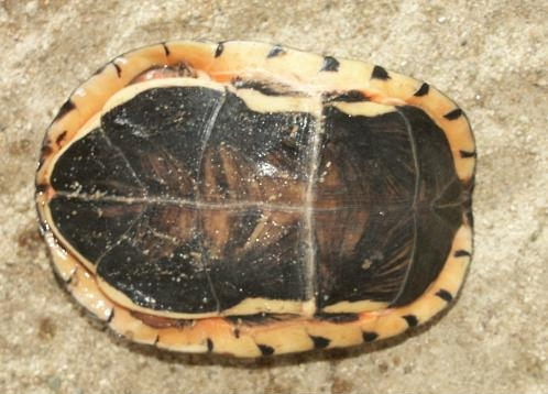 Cuora trifasciata trifasciata Male by Torsten Blanck